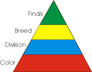 Pyramid describing the The International Cat Association judging process